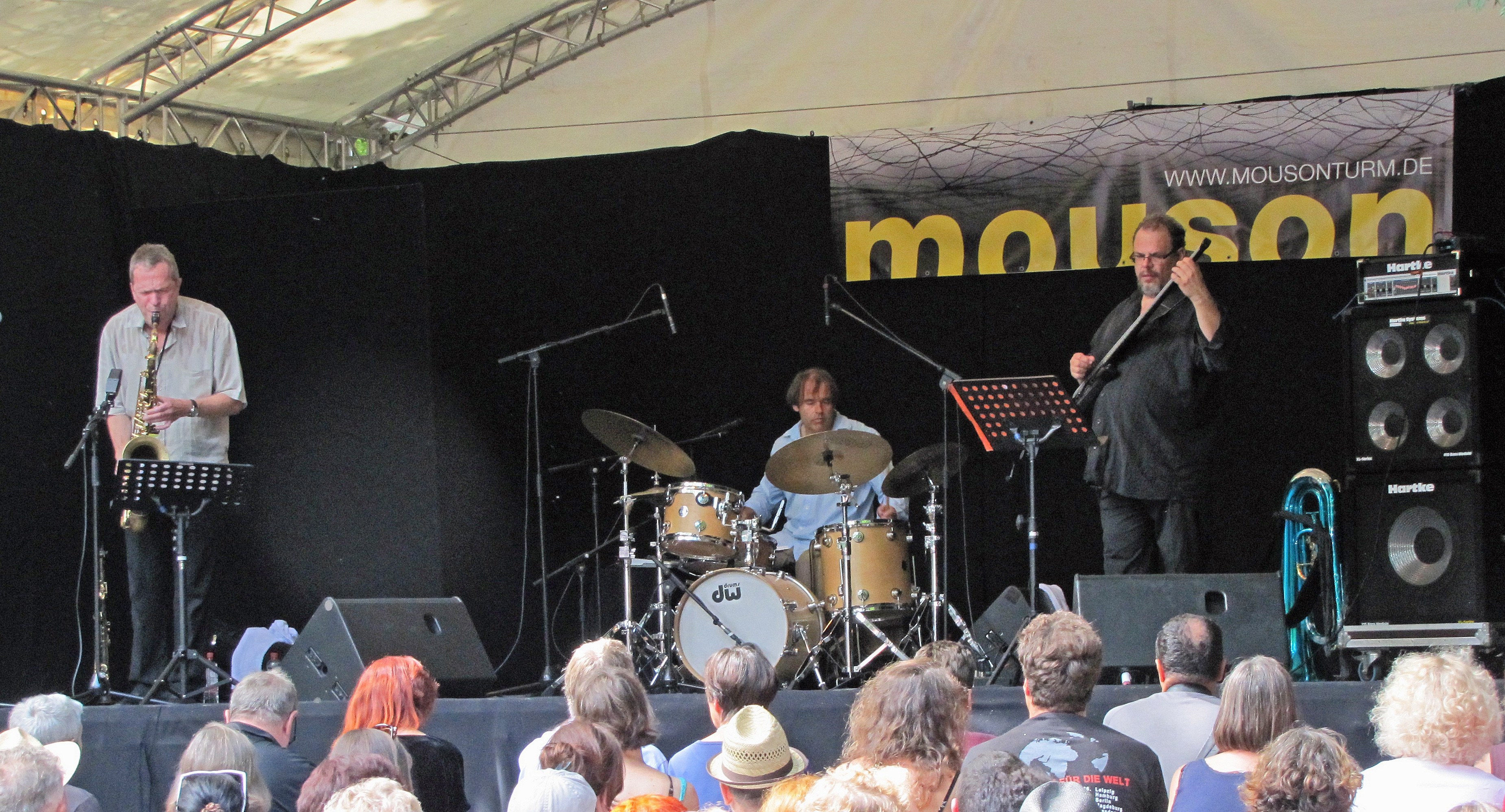 Christof Lauer, Patrice Heral and Michel Godard, 2010 in Frankfurt am Main, at garden of "Liebieghaus" (museum), Germany